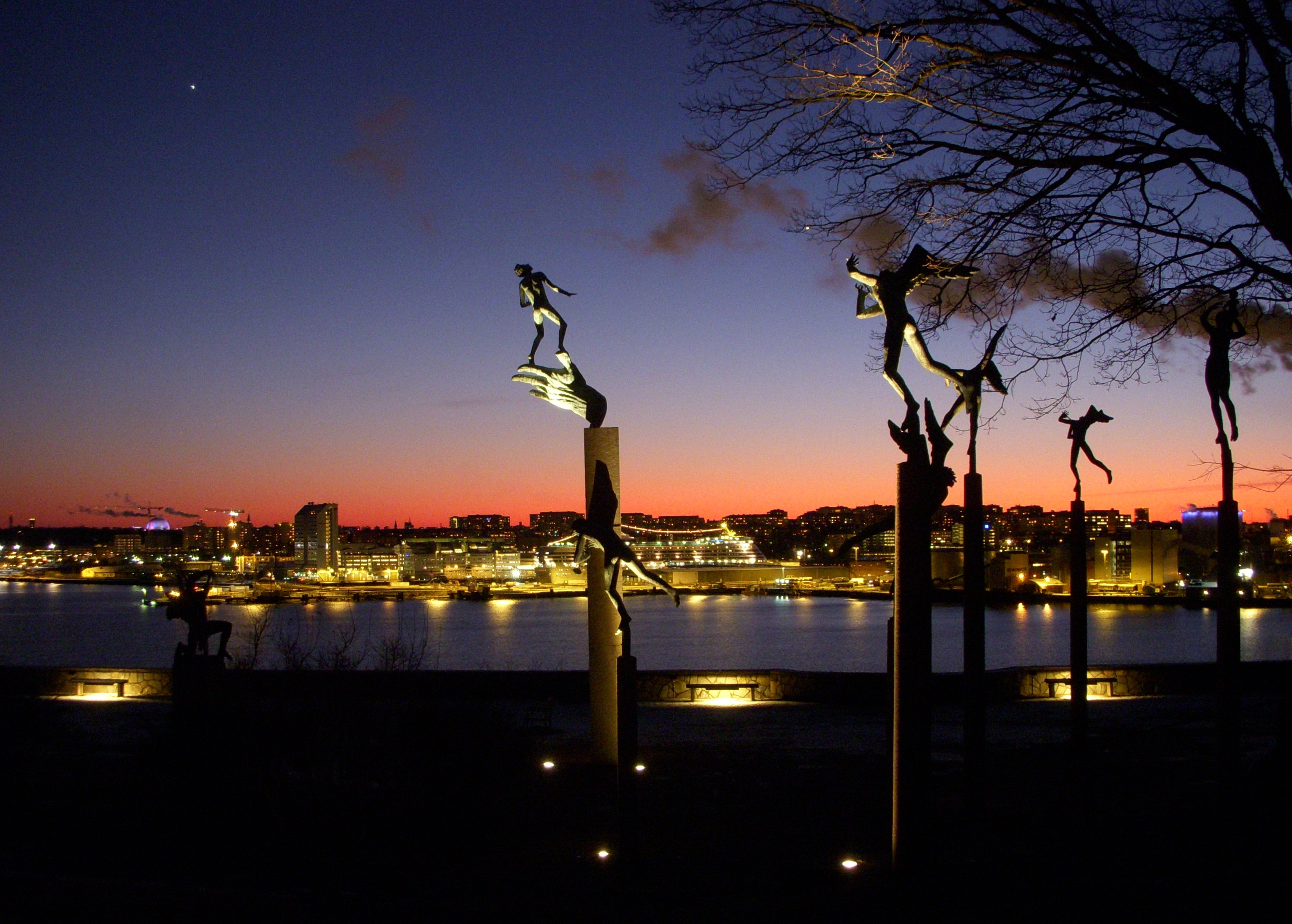 Millesgården art museum and sculpture garden, at Lidingö with a view towards south west and Stockholm harbour, Sweden. The bright "star" in the sky to the left is planet Venus.